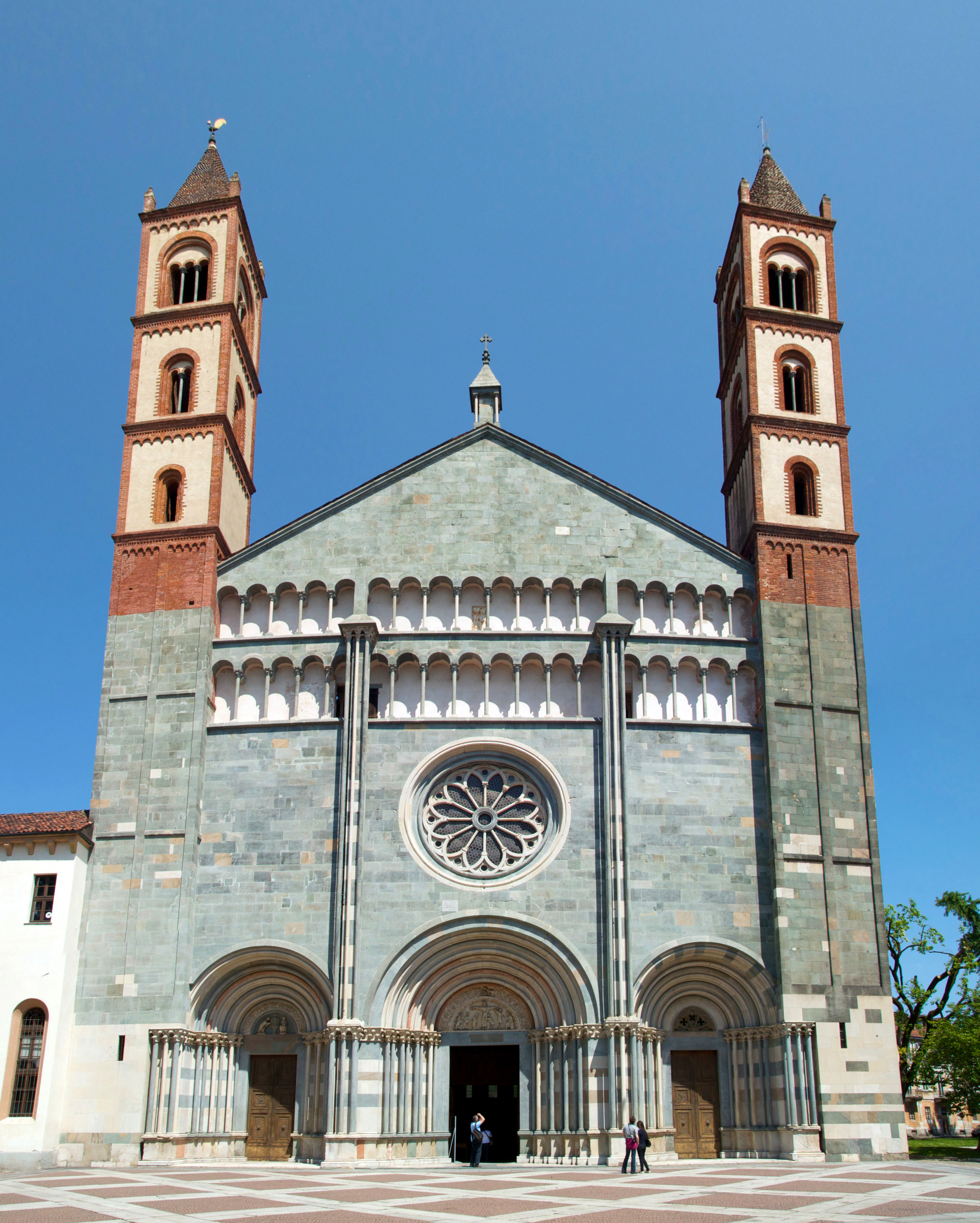 Frontal photo of facade Sant'Andrea in Vercelli